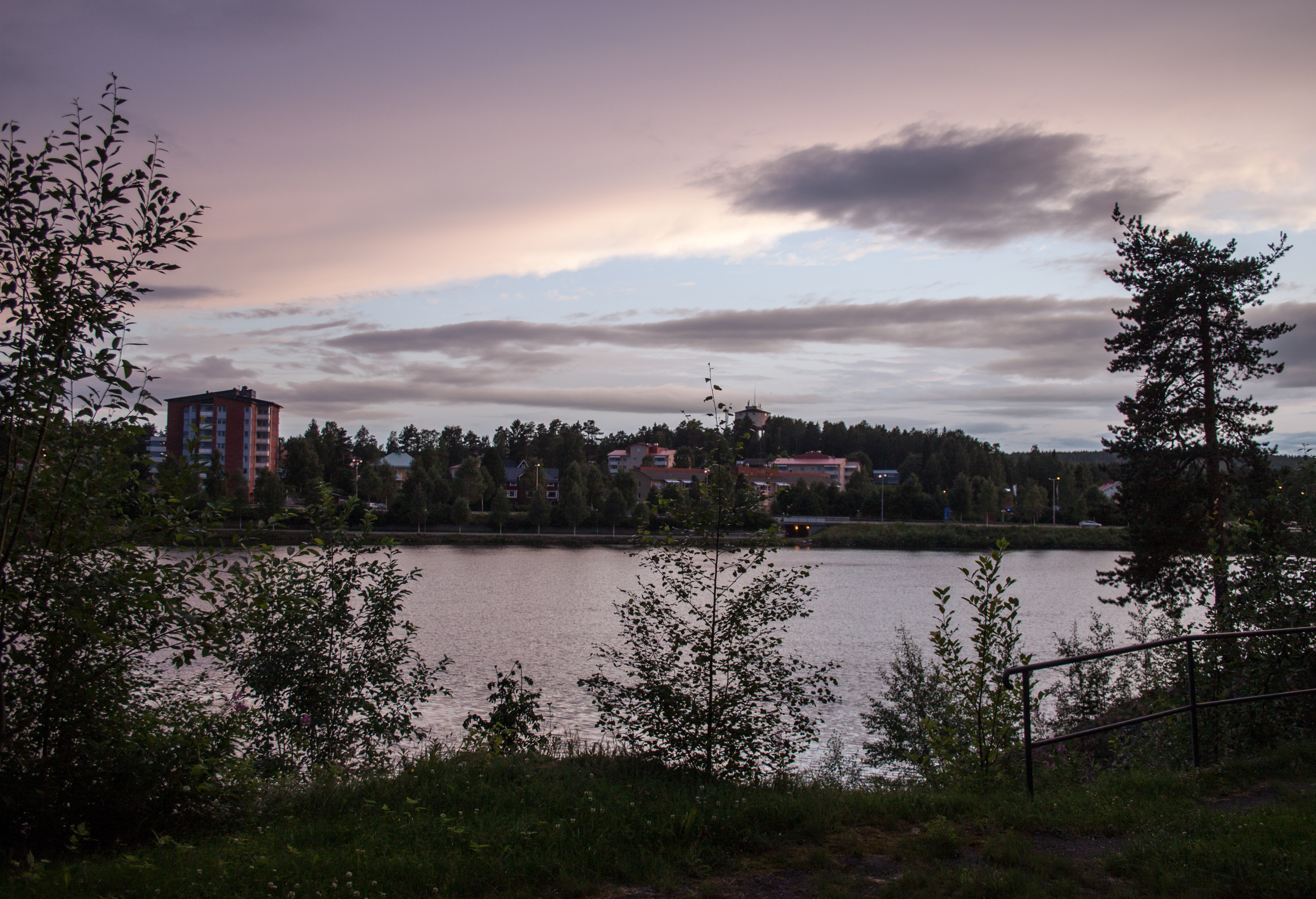 Ume River in Lycksele, summer night at 23.00